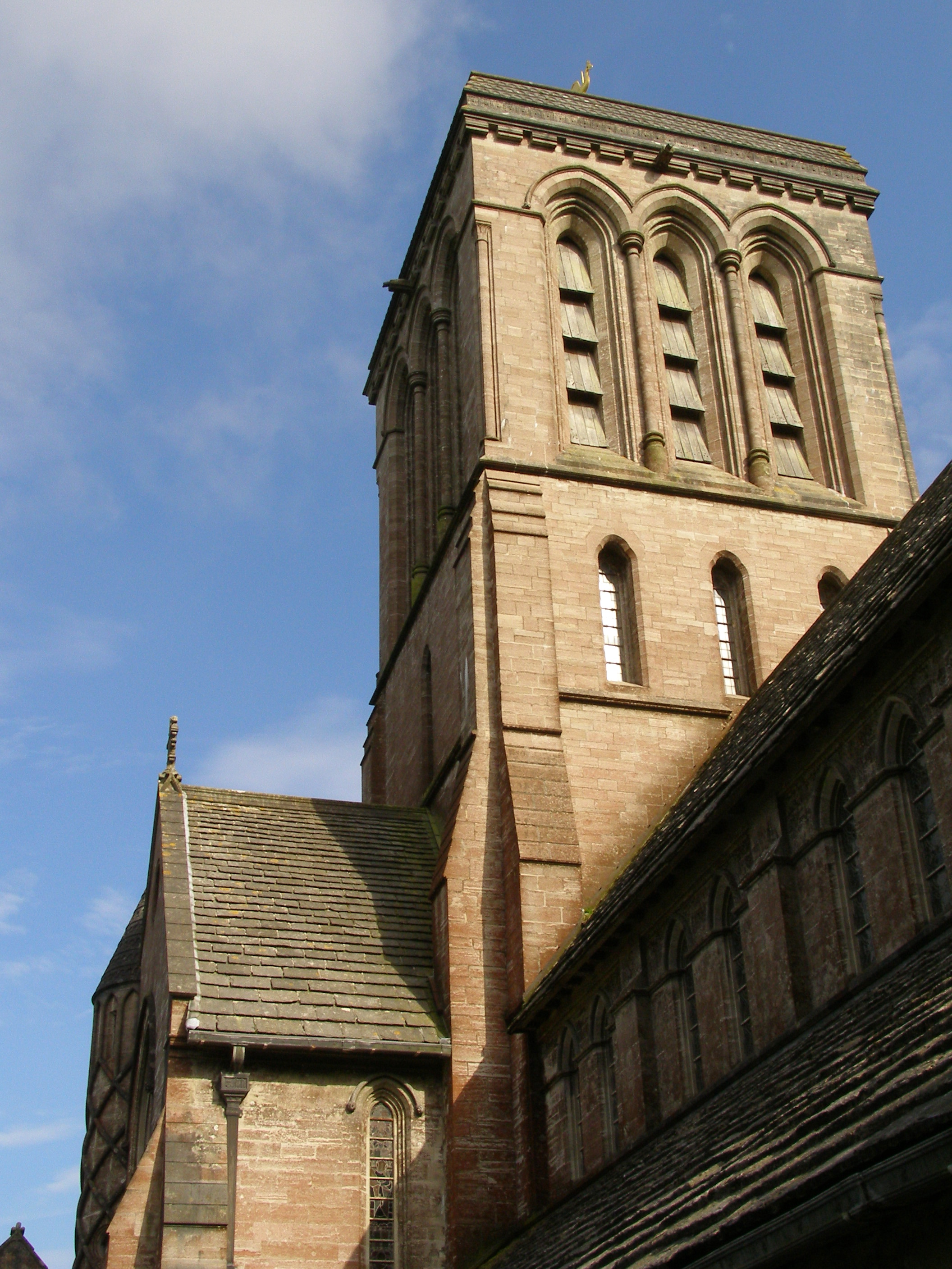 Tower of the more recent St James' parish church, Kingston, Purbeck, seen from the northwest